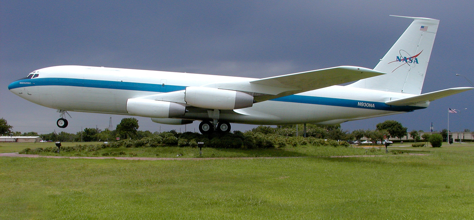 This plane flew out of the Johnson Space Center (originally the Manned Spacecraft Center) near Houston, Texas. It would fly to the top of its climb, then the plane would be allowed to fall to the bottom of it path. This exposed the occupants to a few seconds of no gravity (0-G). It was used in Astronaut training and research experiments. I managed this program for a year or so in the 1960s. The aircraft is now a mounded display at Ellington Air Base.